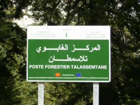 Tlassemtane natur Center near chefchaoun in the north of Morocco